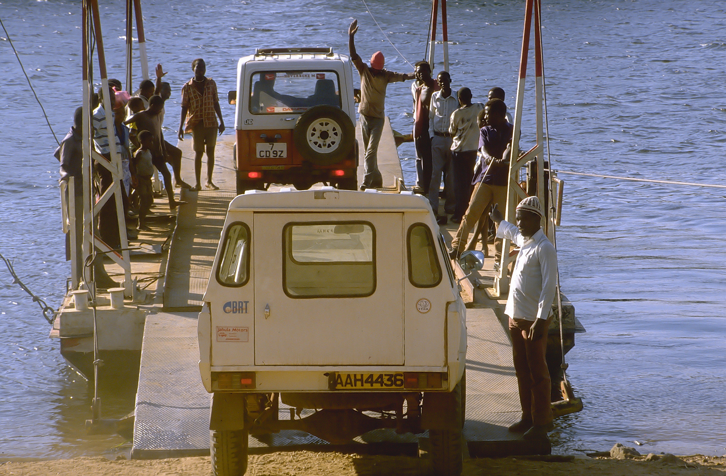 Chiawa Pontoon, crossing the Kafue river, Zambia.Kodak photo CD from slide